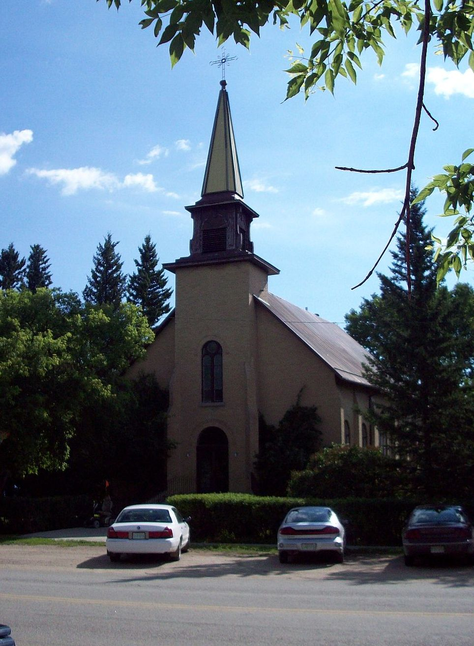 Church of the Immaculate Conception, Qu'Appelle